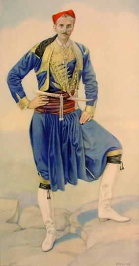 Greek Man's Town Costume (Crete) including Vraka trousers - Greek Costume Collection by NICOLAS SPERLING (Russia 1881-1940 / act: Athens).